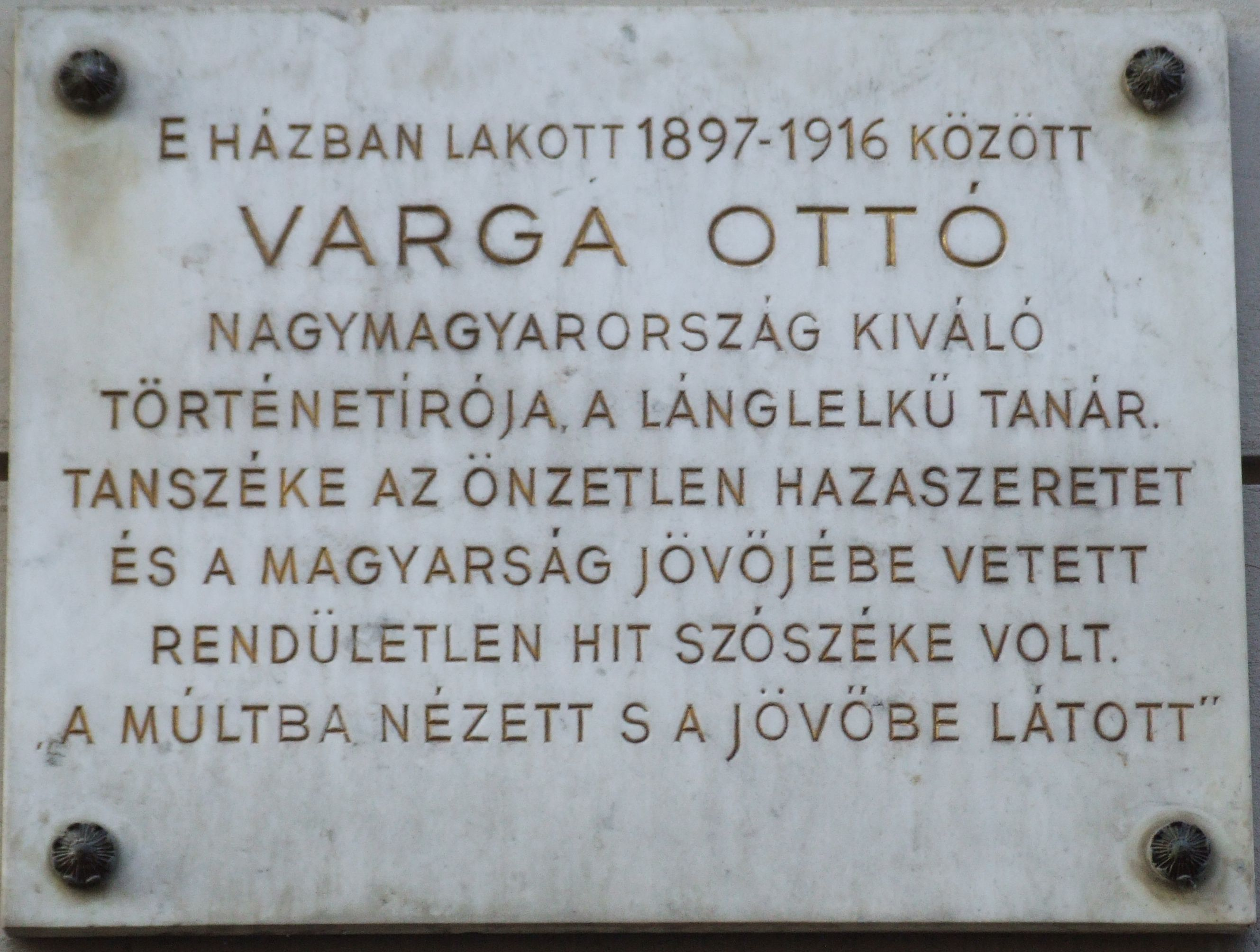 Ottó Varga commemorative plaque in Budapest District I, Logodi Street No 25.